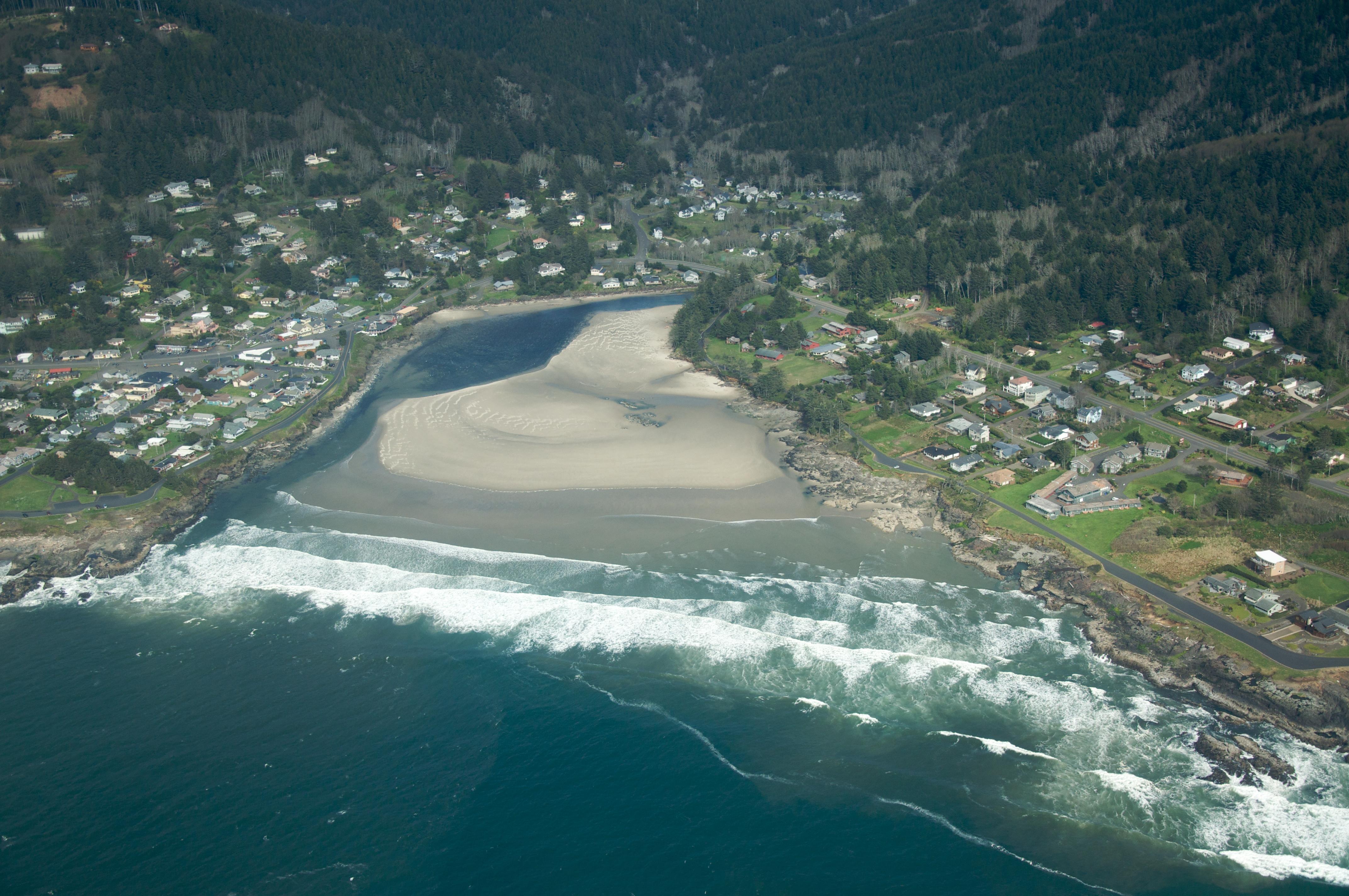 Aerial shot, Oregon, United States